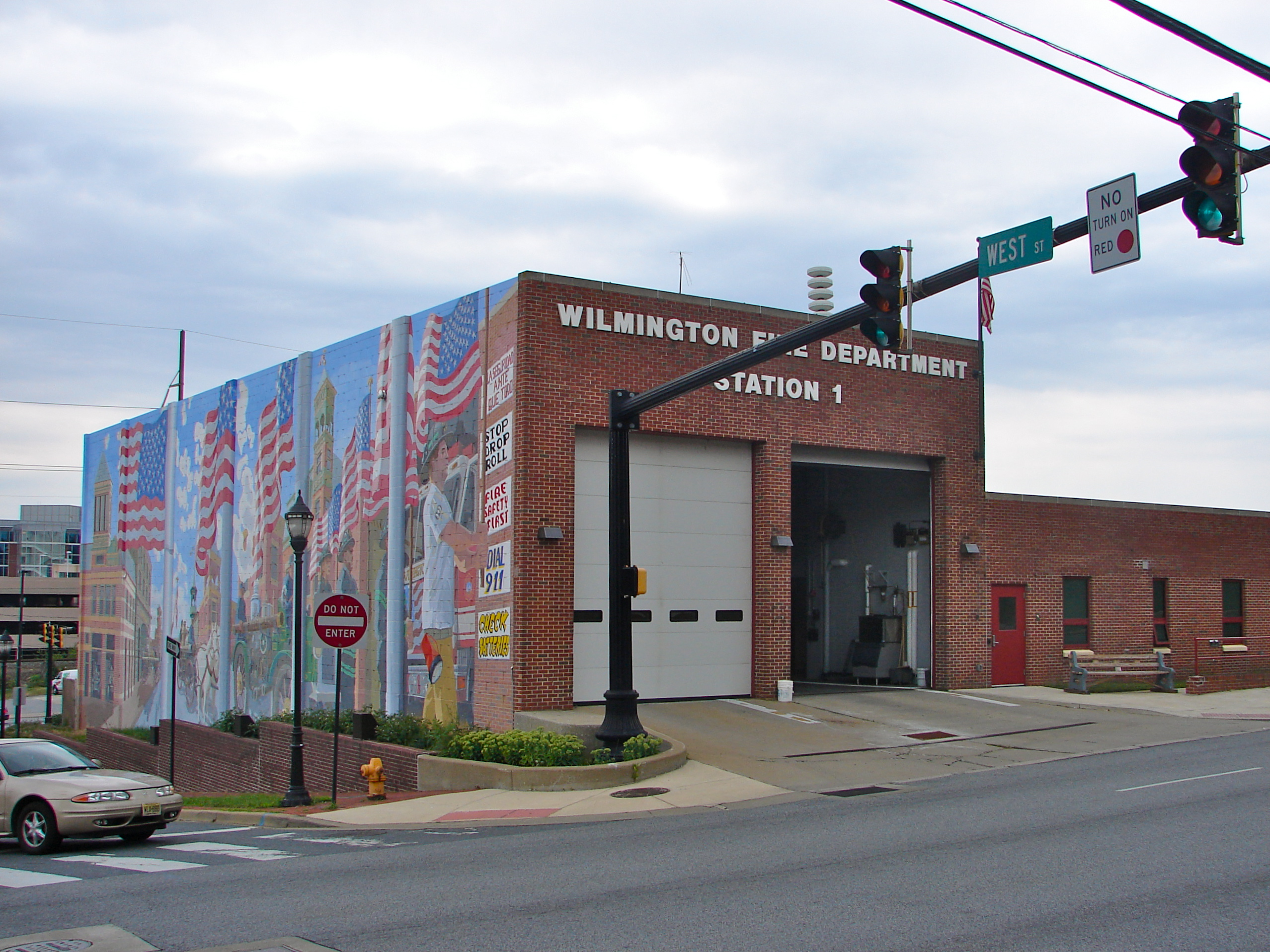 Fire Station 1 in Wilmington, New Castle County, Delaware. Address approx 400 W. 2nd Street. Nearby was the original location of the Zachariah Ferris House, the oldest extant house in Wilmington, which was moved to Willingtown Square in 1976 to escape demolition.